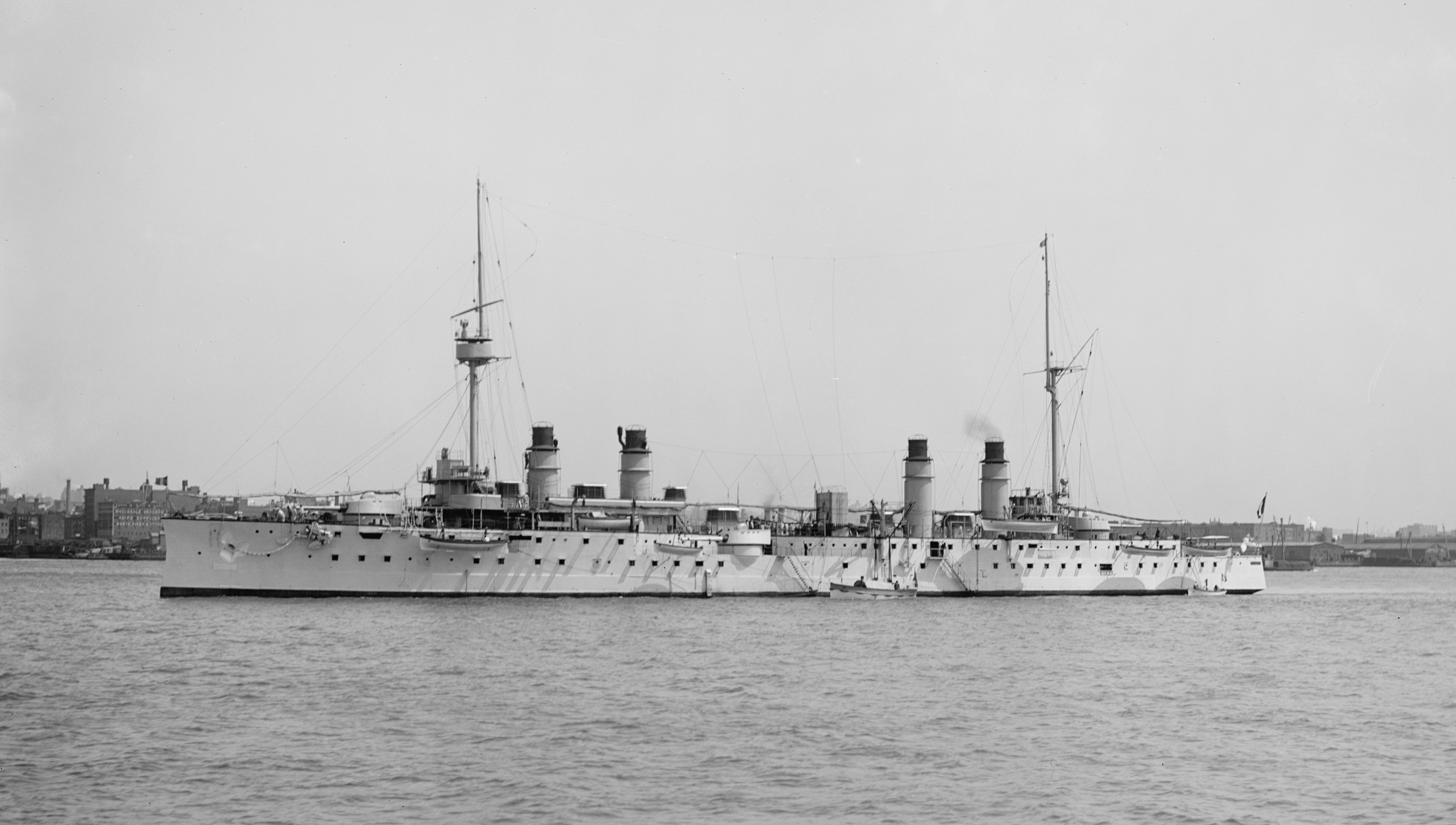 The French Dupleix-class cruiser Kleber in the U.S. before the First World War. Commissioned in 1903 she stranded off Gallipoli, Turkey, on 29-31 May 1915, but was refloated. On 7 July she then collided with a British cargo ship but was repaired. On 27 June 1917 she struck a mine laid by the German submarine U 61 off Brest, France, and sank with the loss of 42 crew.